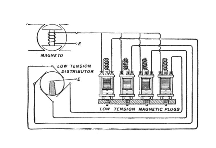 Magneto ignition with low-tension magnetic spark plugs (Rankin Kennedy, Electrical Installations, Vol II, 1909).jpg